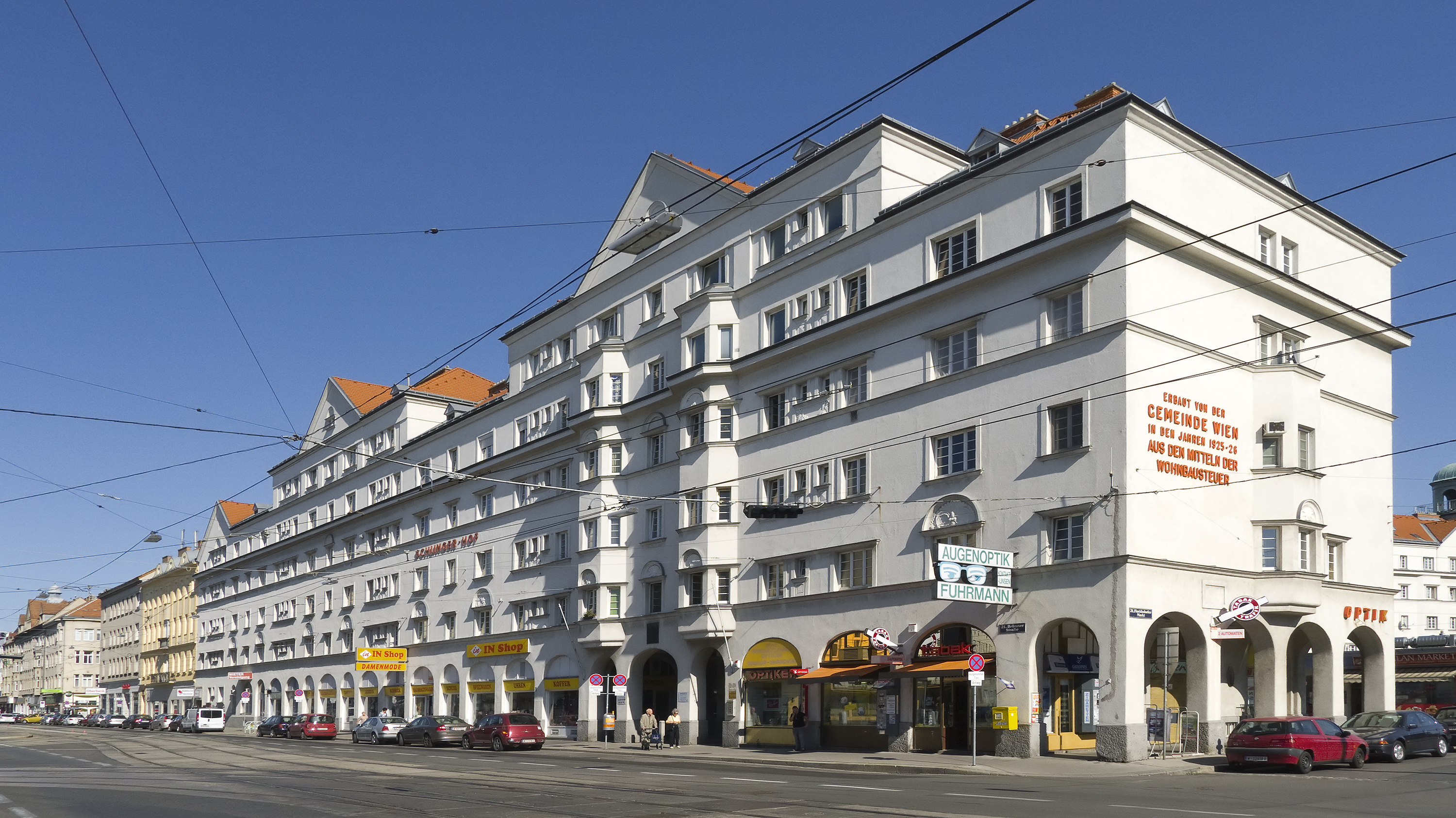 Residential building Schlinger-Hof in Vienna 21